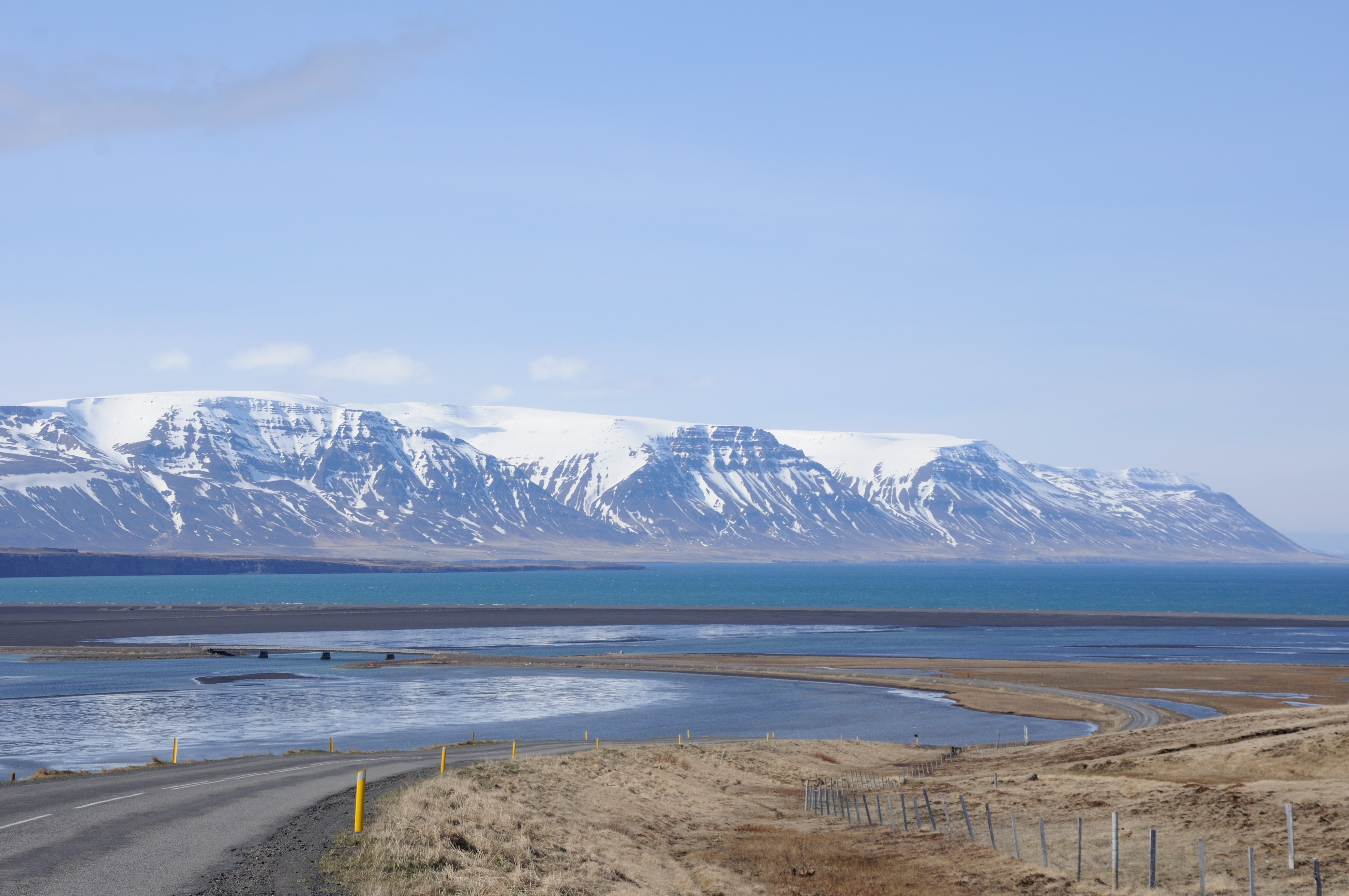 Iceland , impressions along road 75